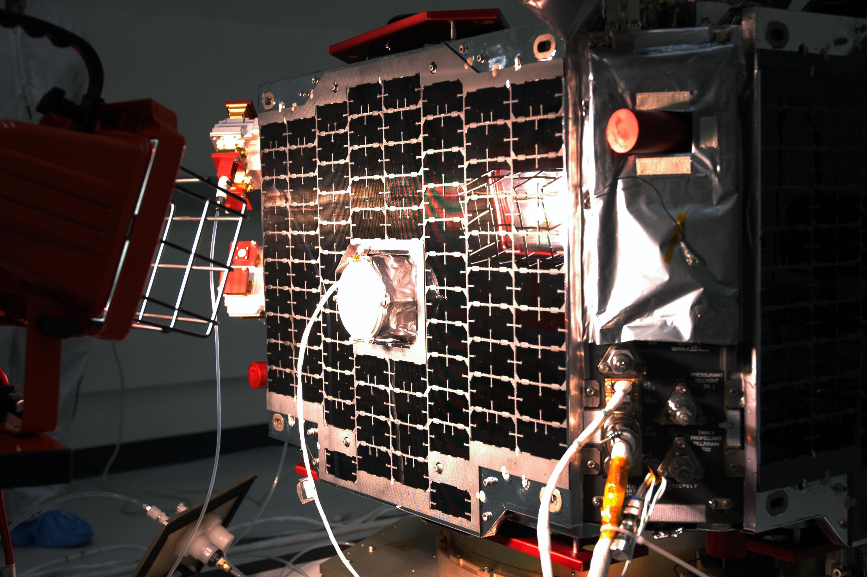 KENNEDY SPACE CENTER, FLA. -- At Astrotech Space Operations in Titusville, Fla., a solar array on one of the THEMIS probes undergoes a light test. THEMIS consists of five identical probes, the largest number of scientific satellites ever launched into orbit aboard a single rocket. This unique constellation of satellites will resolve the tantalizing mystery of what causes the spectacular sudden brightening of the aurora borealis and aurora australis - the fiery skies over the Earth's northern and southern polar regions. These lights are the visible manifestations of invisible energy releases, called geomagnetic substorms, in near-Earth space. THEMIS will not only seek to answer where and when substorms start, but will also provide clues as to how and why these space storms create havoc on satellites, terrestrial power grids, and communication systems. THEMIS is scheduled to launch Feb. 15 from Cape Canaveral Air Force Station.